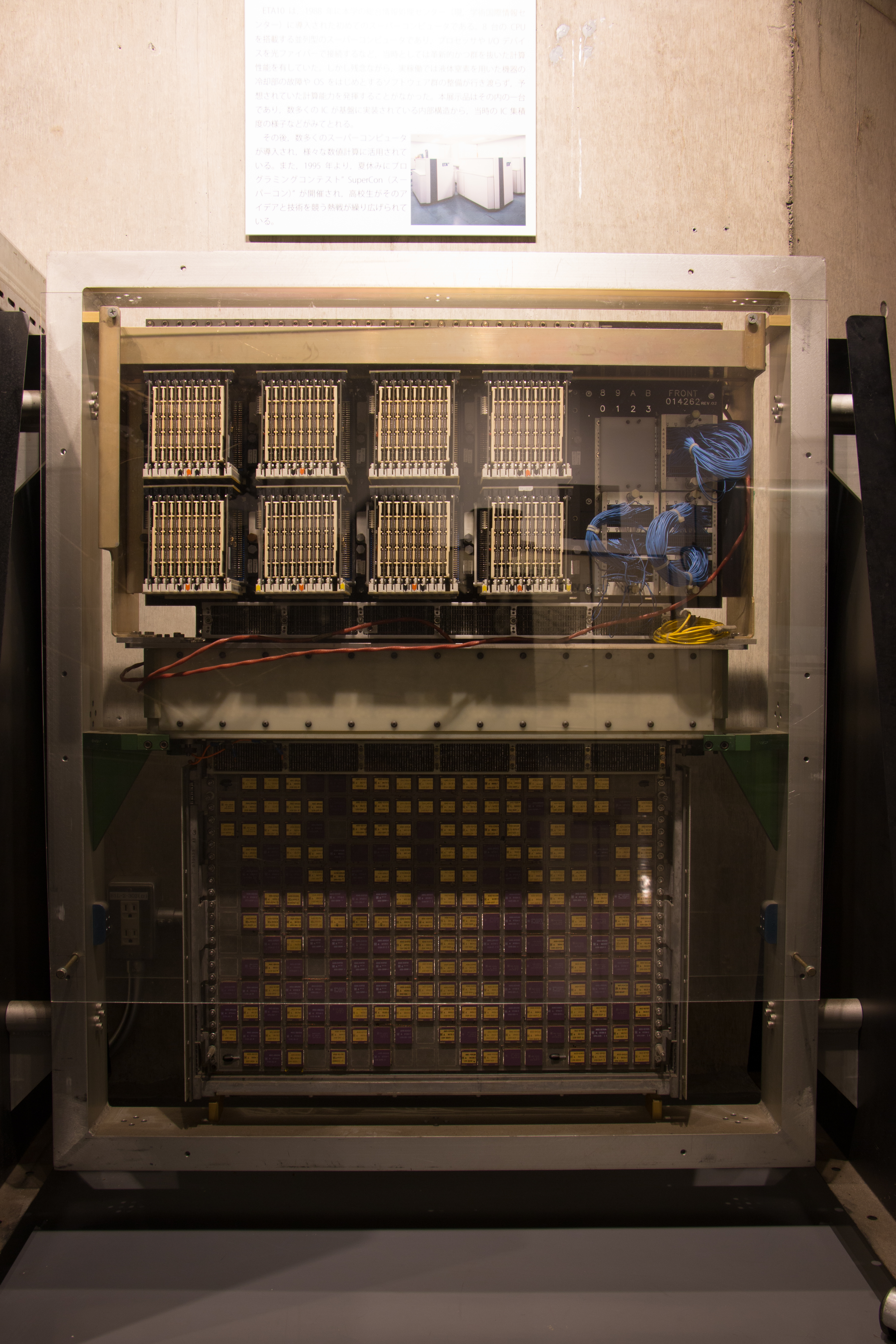 ETA10 is the first super computer located in The Tokyo Institute of Technology.